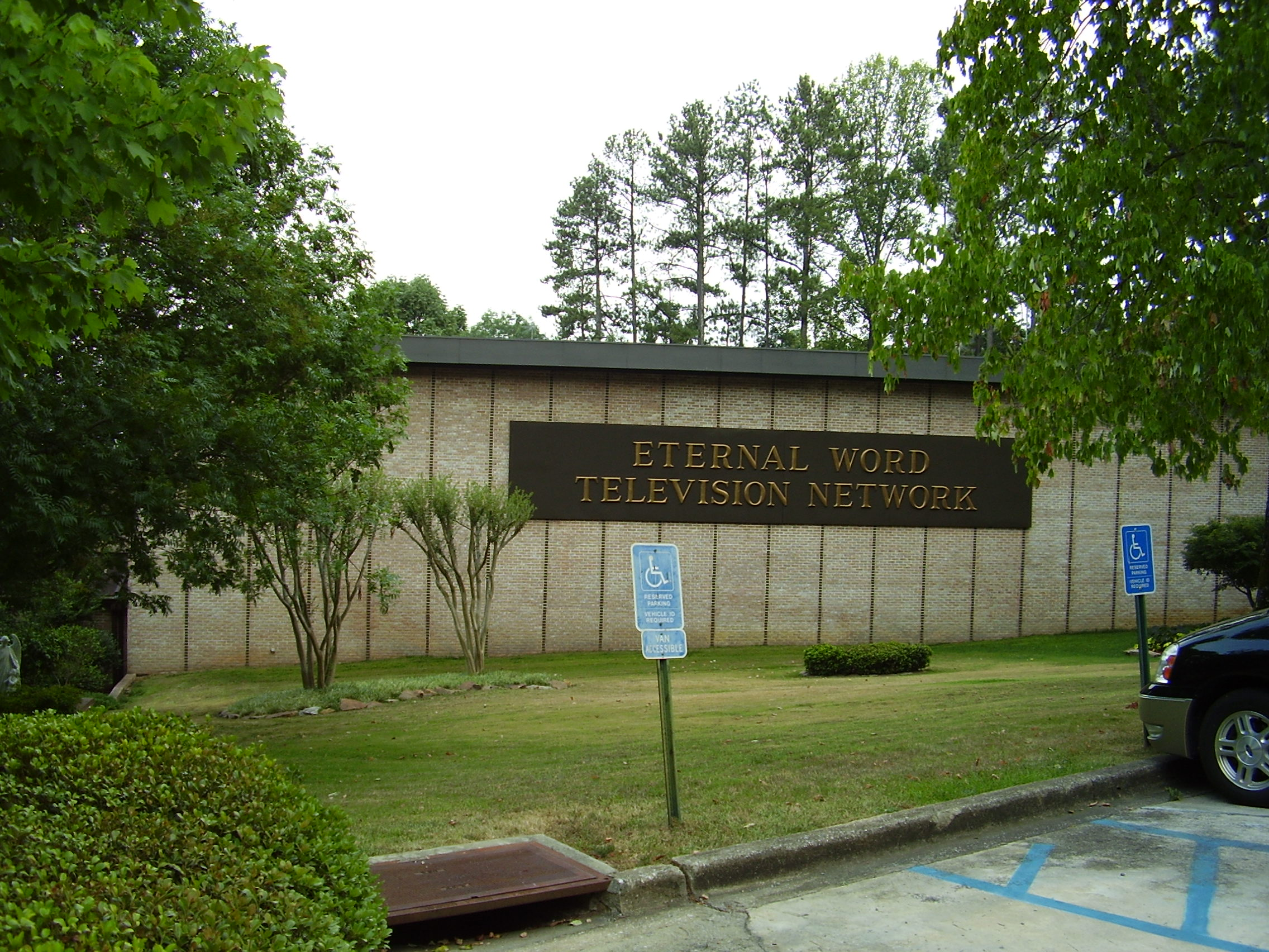 The headquarters of the Eternal Word Television Network (EWTN), founded by the nun Mother Angelica, is located in Irondale.